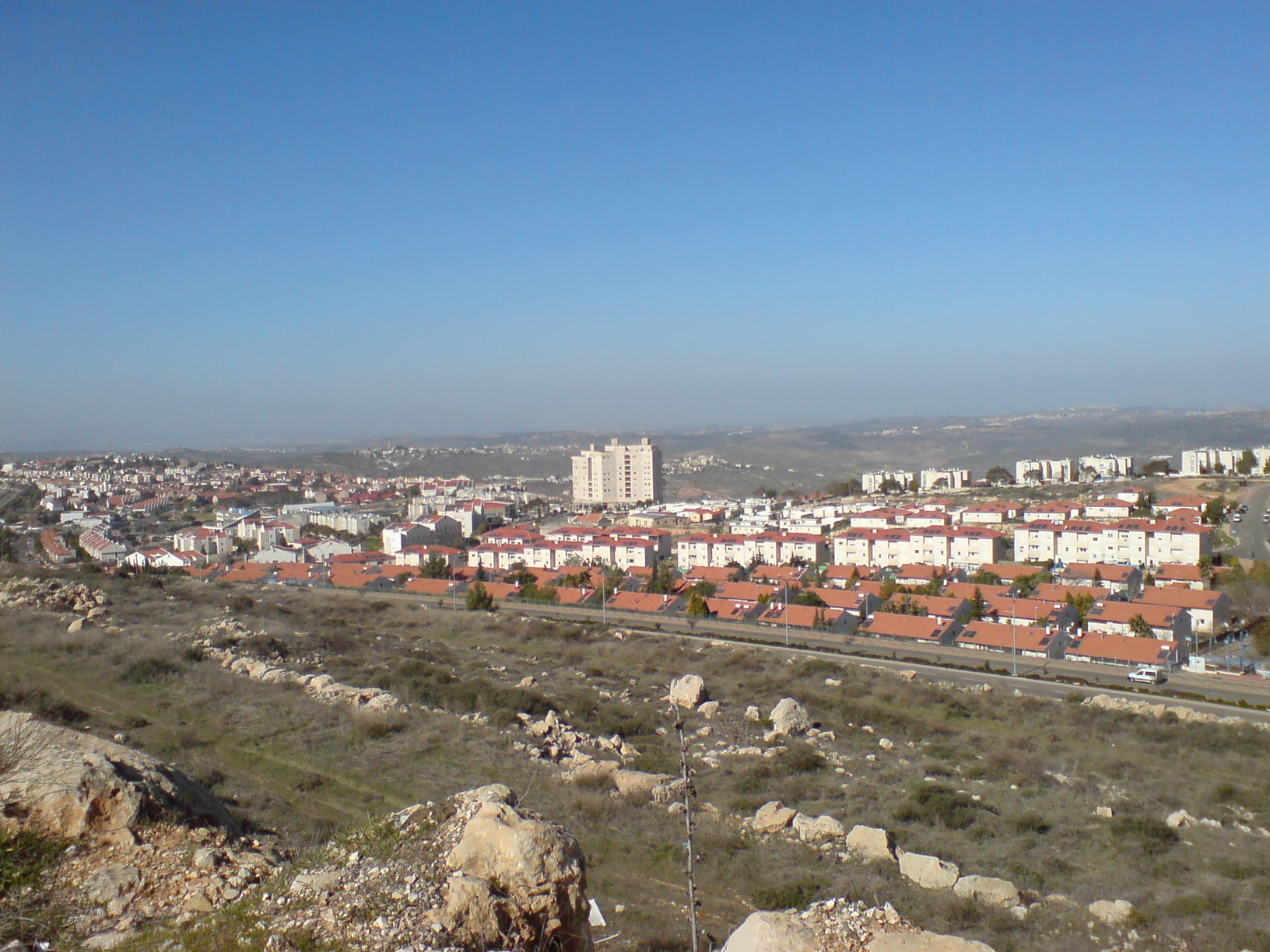 City of Ariel in the West Bank